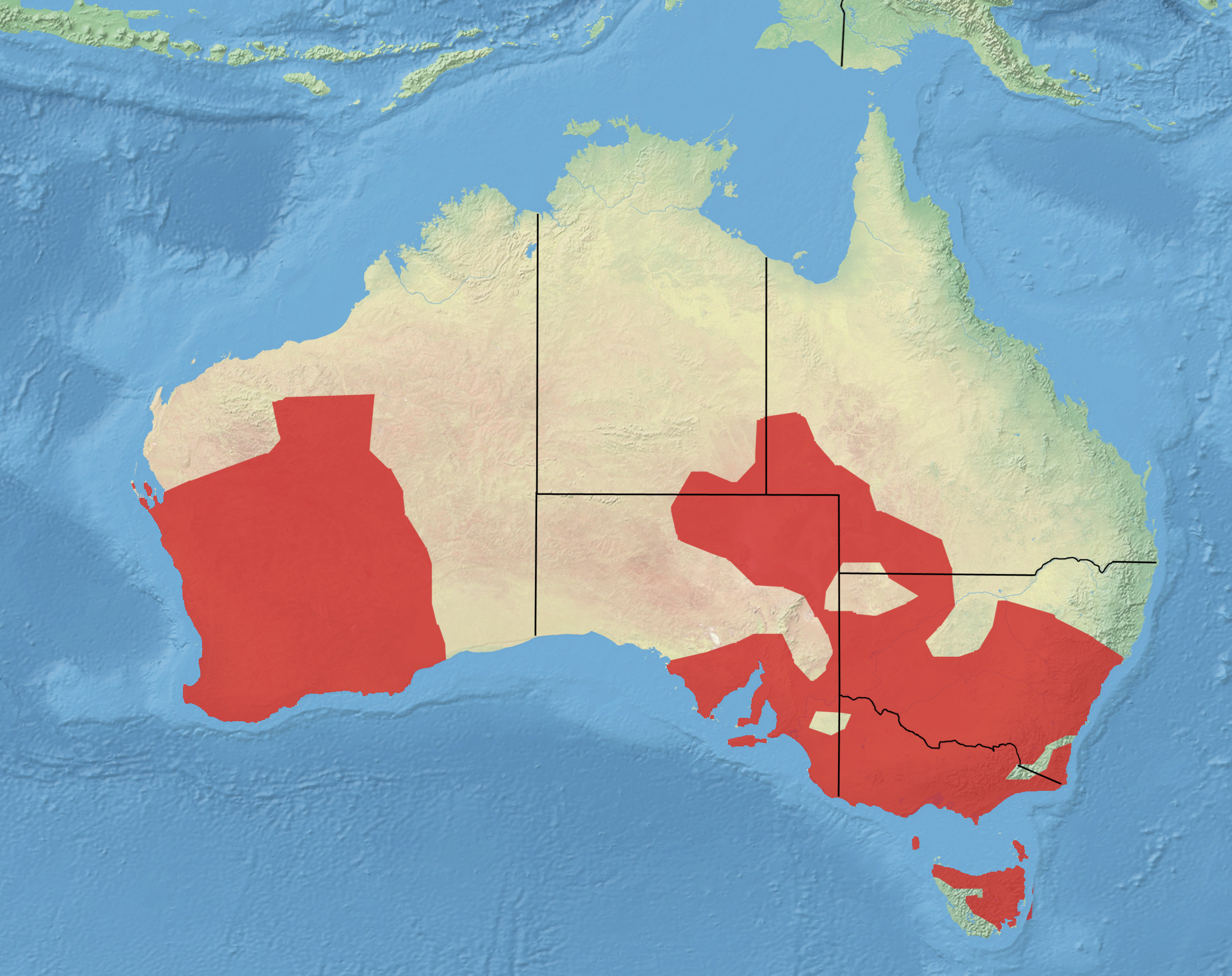 The Distribution of the Australian Shelduck